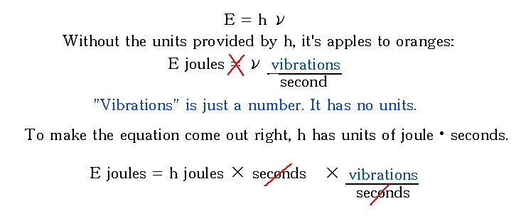 Correct, graphically, the mistaken idea that the Plank constant is the smallest possible unit of energy.